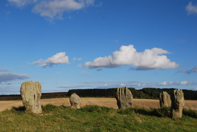 Duddo stone circle, all 5 stones